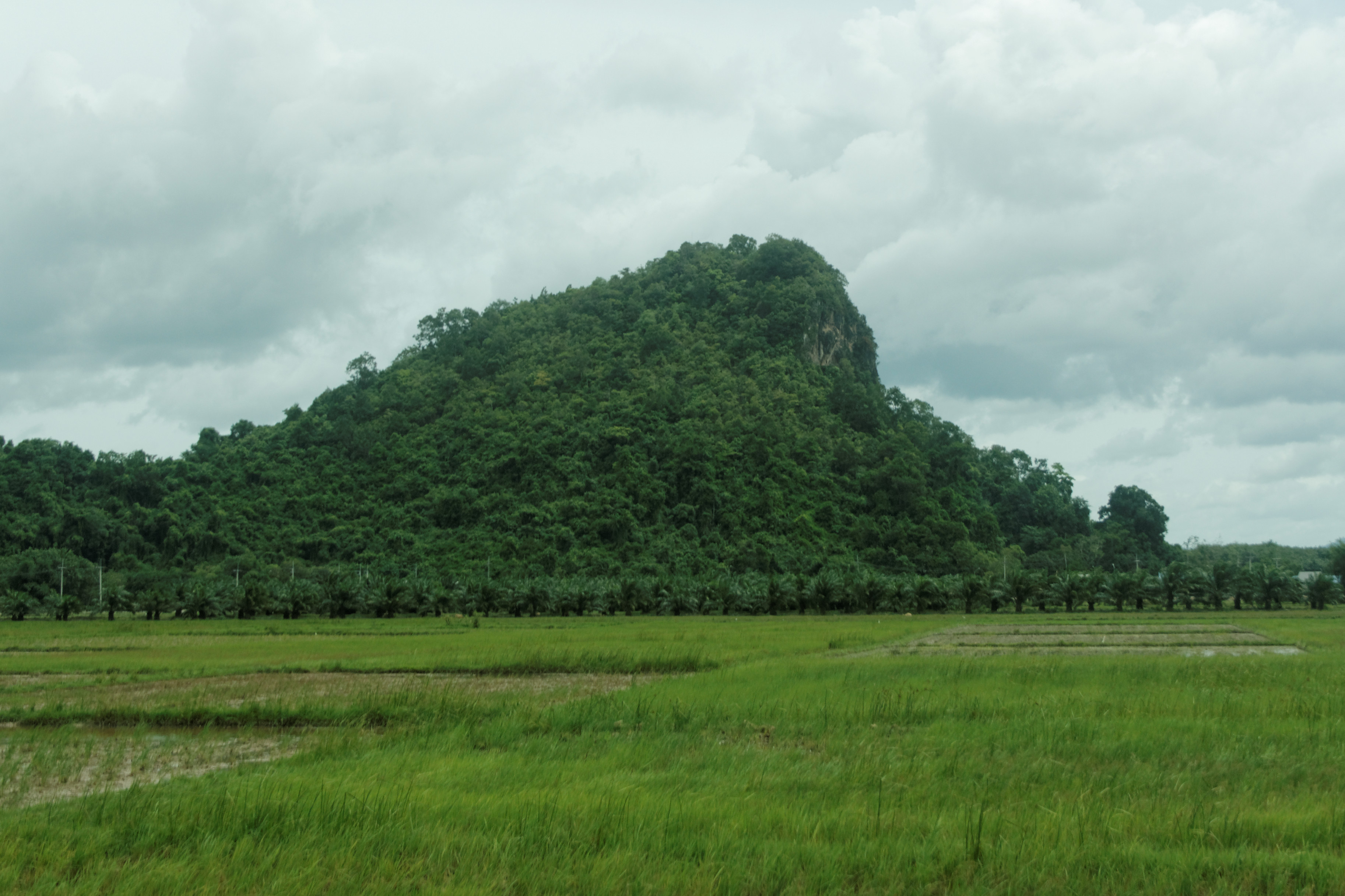 Khao Chang Hai, hill in Trang province, souther Thailand